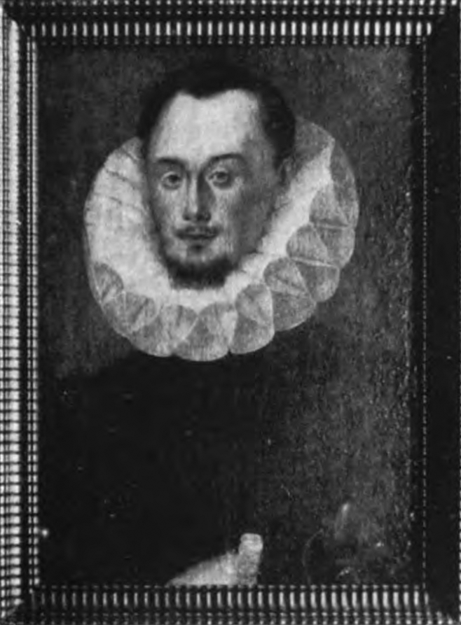 Johann Ludwig von Kuefstein, inscription: Aet. 21. Ao 1604.